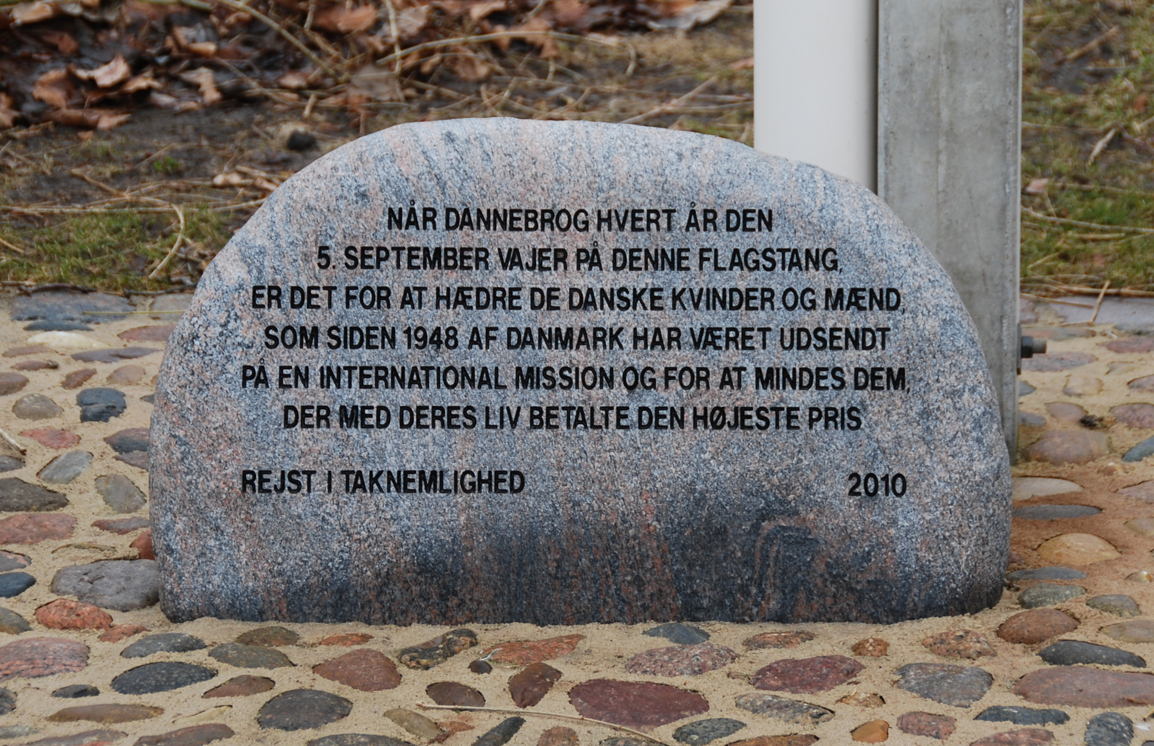 Danish national flag day for remembering soldiers on service outside Denmark on September 5